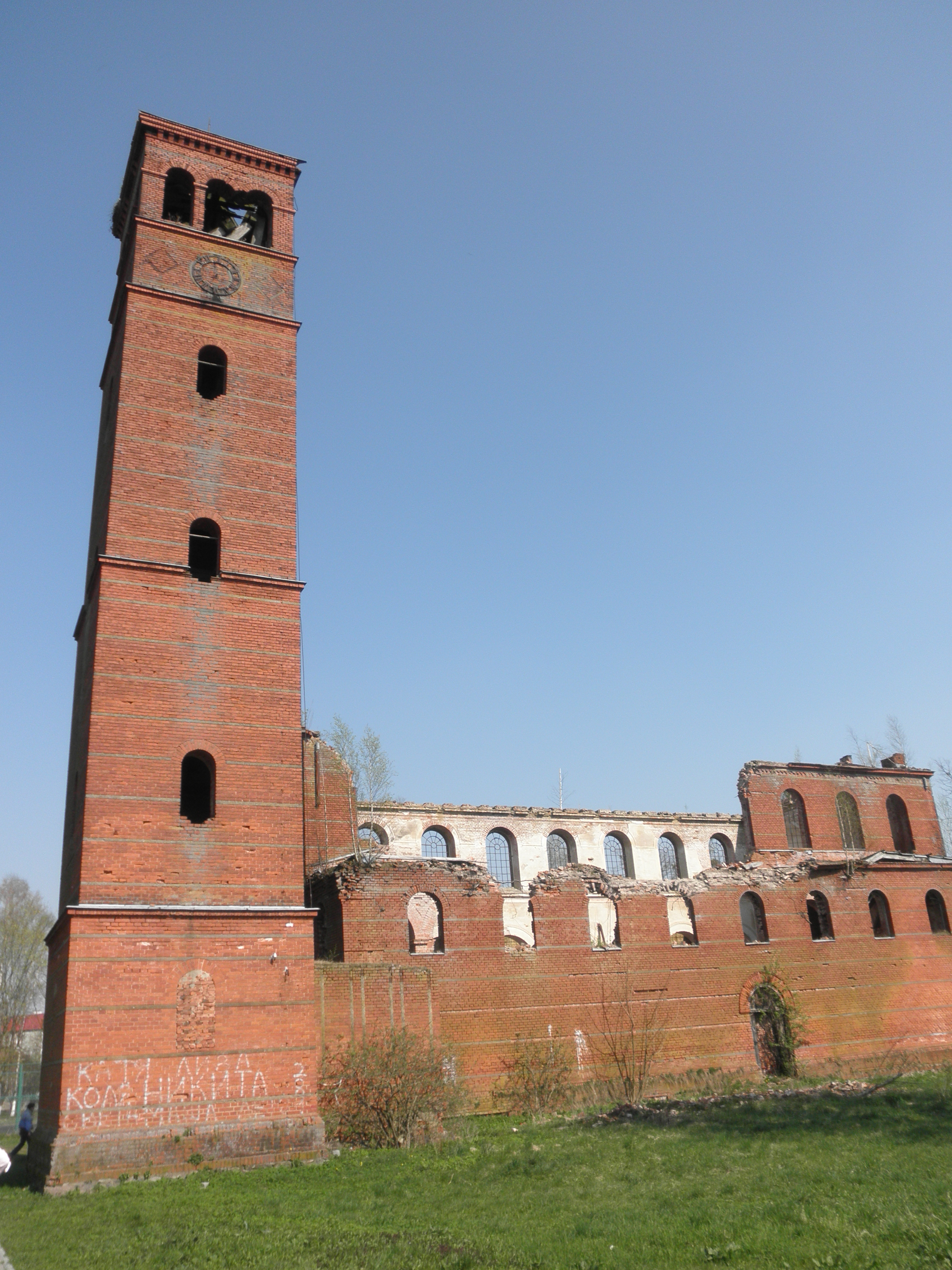 Church in Mehlauken (Salessje) in Oblast Kaliningrad in Russia